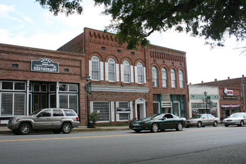 Taken July, 15, 2005